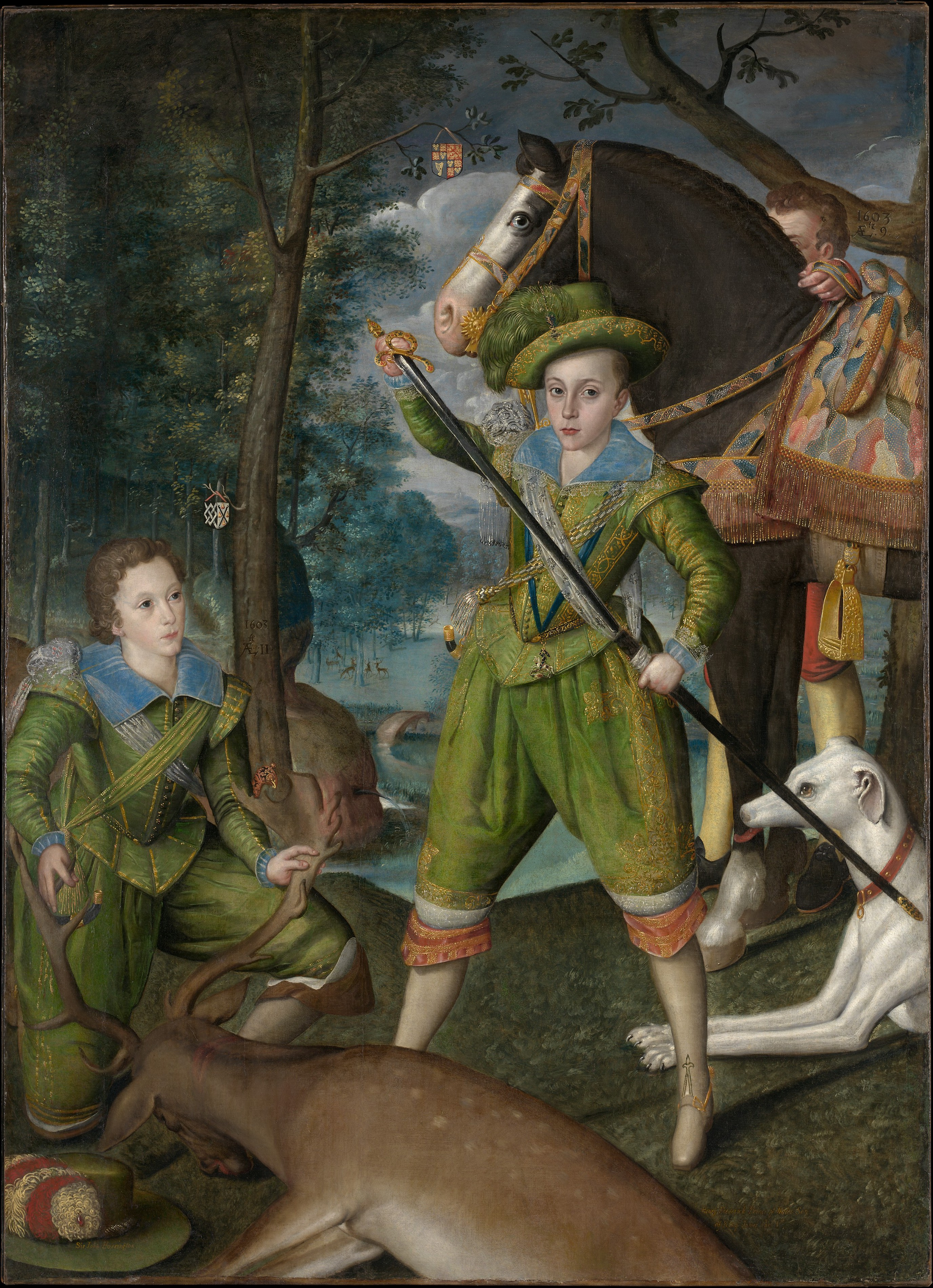 Henry Frederick (1594–1612), Prince of Wales, and Sir John Harington (1592–1614) are depicted on the hunting field. Metropolitan Museum of Art, New York. A variant version in which the prince is accompanied by Robert Devereux, 3rd Earl of Essex, is in the Royal Collection, U.K., dated c. 1605